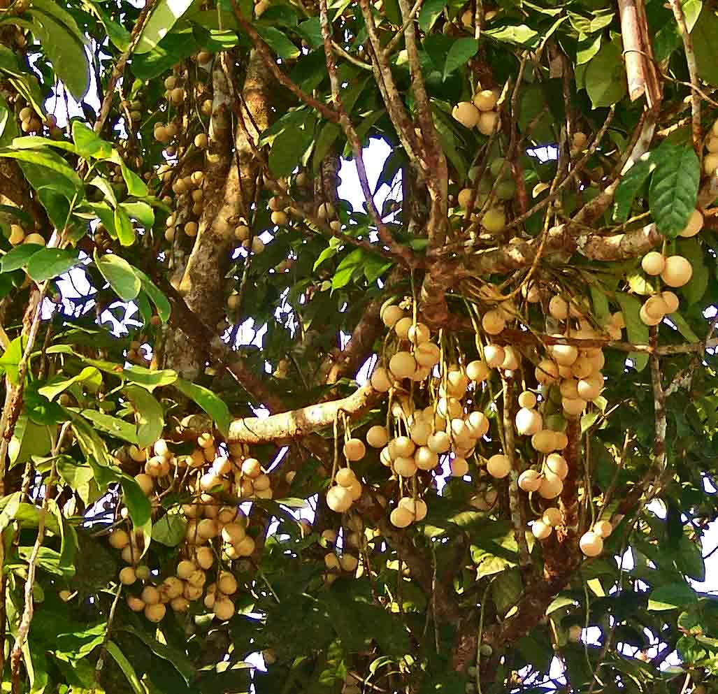 Duku, Lansium domesticum fruit. From Mandi Angin, Rawas Ilir, Kabupaten Musi Rawas, South Sumatra, Indonesia.